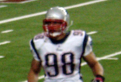 Willie McGinest (#55), Rosevelt Colvin (#59), and Chad Brown (#98) of New England Patriots warm up for a game.